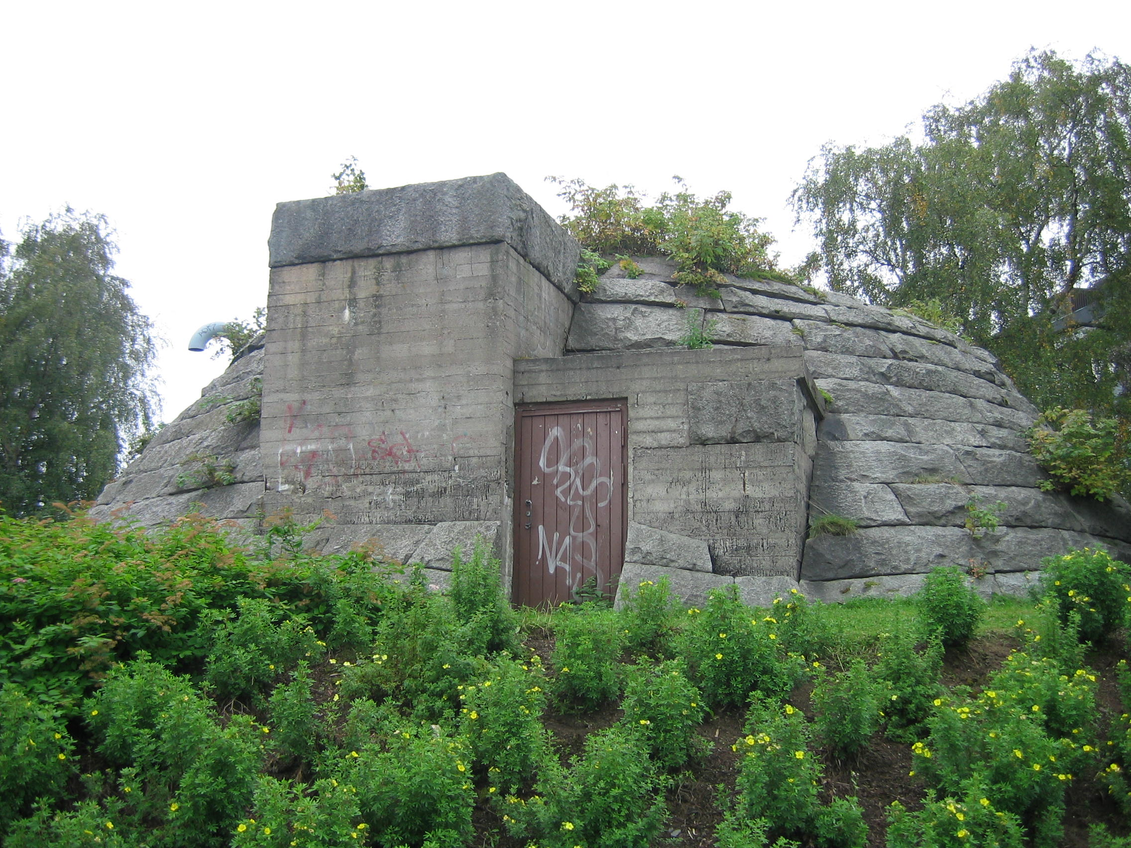 The stone bunker called "Kivikukko" in the city of Oulu, Finland.